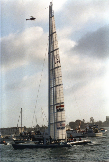 A photo of Stars and Stripes 1988 an American catamaran that successfully defended the 1988 America's Cup.Stars & Stripes won against KZ1 with 2–0 in matches. It was skippered by Dennis Conner. This photo was taken immediately after it had won the America's Cup races and was returning to harbor in San Diego, California. September 9, 1988. Attribution to "Phil Konstantin"